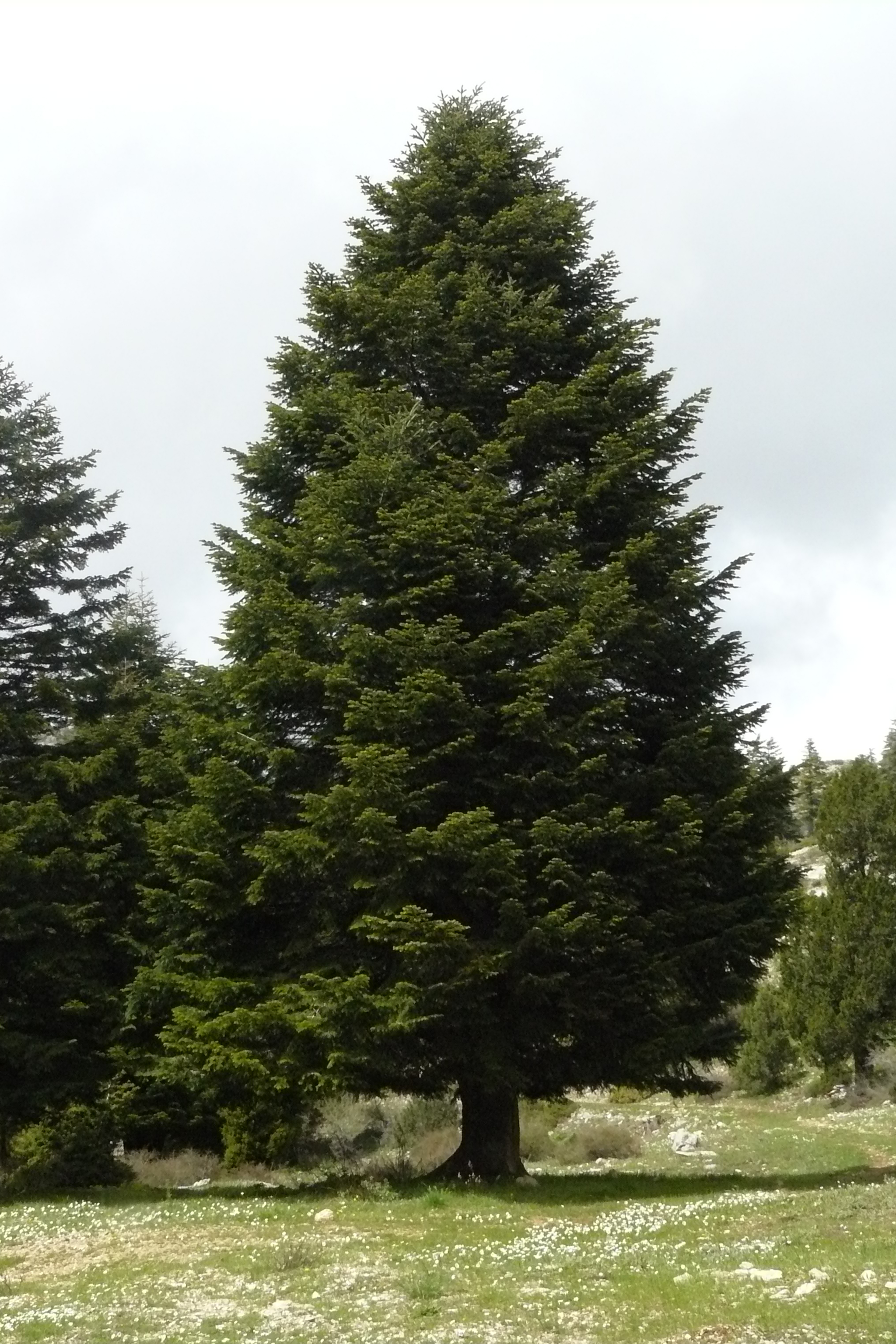 Abies cilica growing in its natural habitat in the Ammoua Reserve, Akkar district, North Lebanon governorate in Lebanon